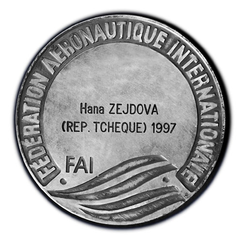 Reverse of the Pelagia Majewska Medal owned by Hana Zejdowa